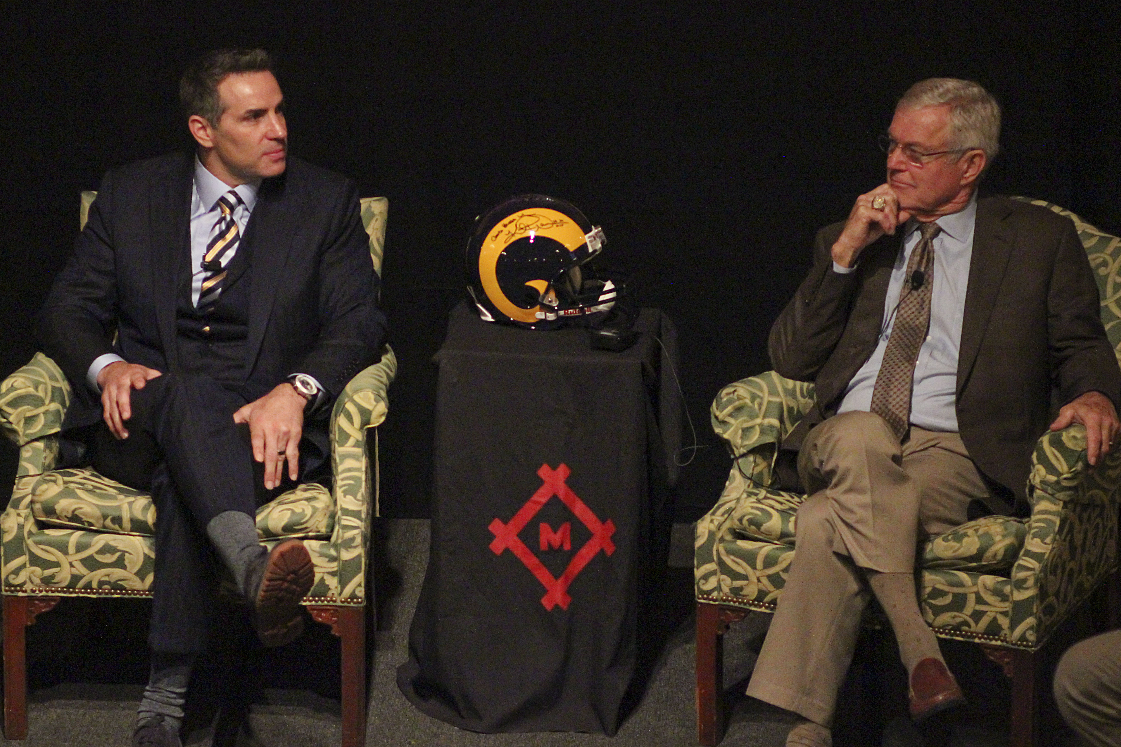 Dick Vermeil talks during Kurt Warners induction into the St.Louis Sports hall of fame.